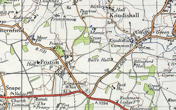 Map of Friston in 1945